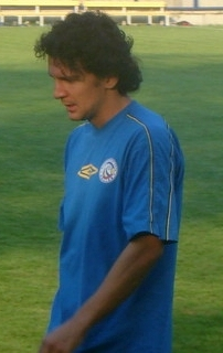 Serian footballer Miloš Kruščić on training practice in FC Rostov.